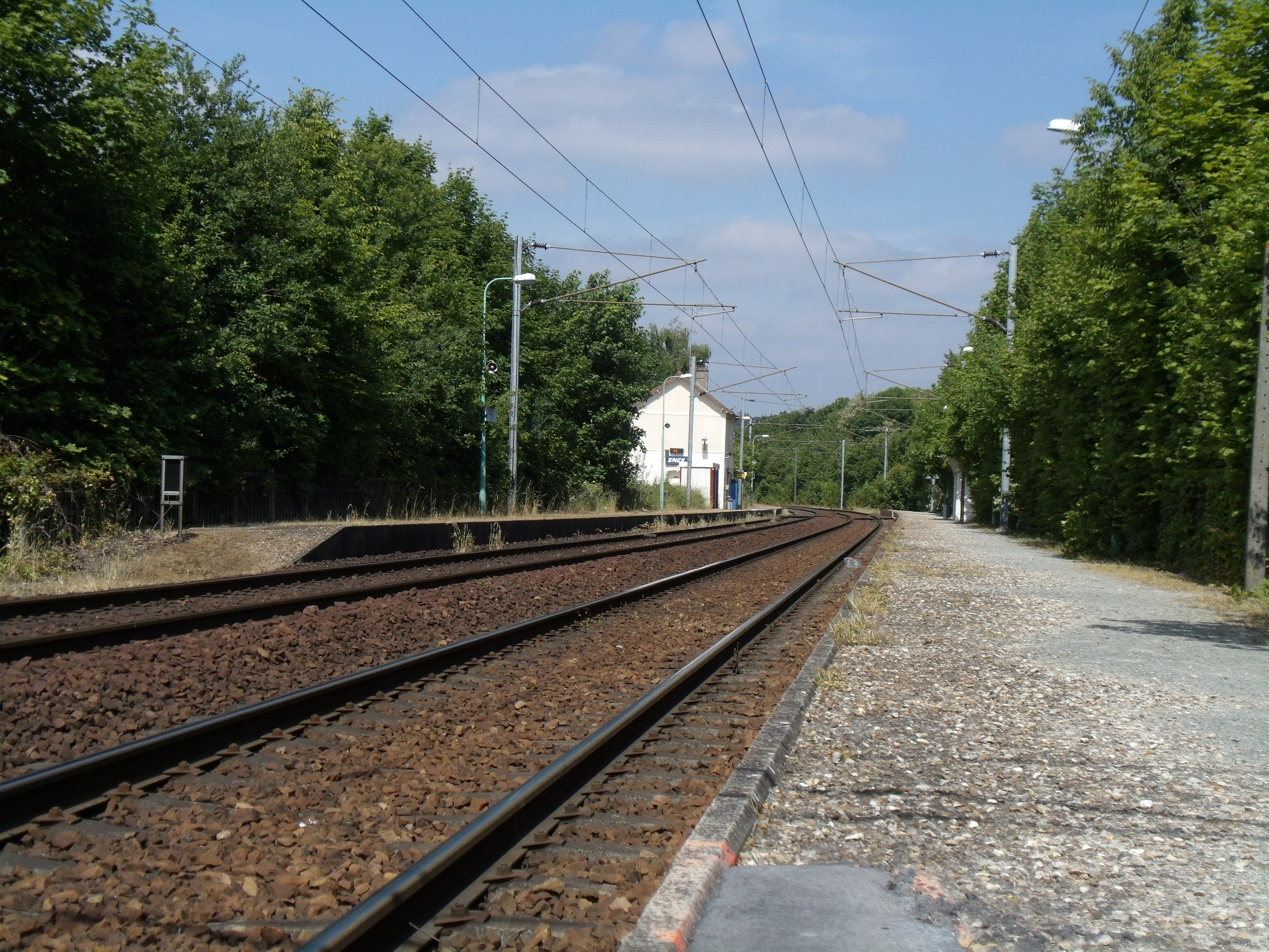 Trie-Château station and tracks toward Gisors